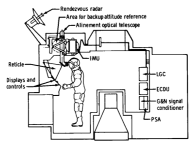 Diagram showing Apollo Lunar Module primary guidance system locations